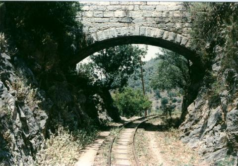 Bridge on Pelion 600 mm gauge railway. Photo 1995 by John Foss. Zenith SLR camera. Kodak film.